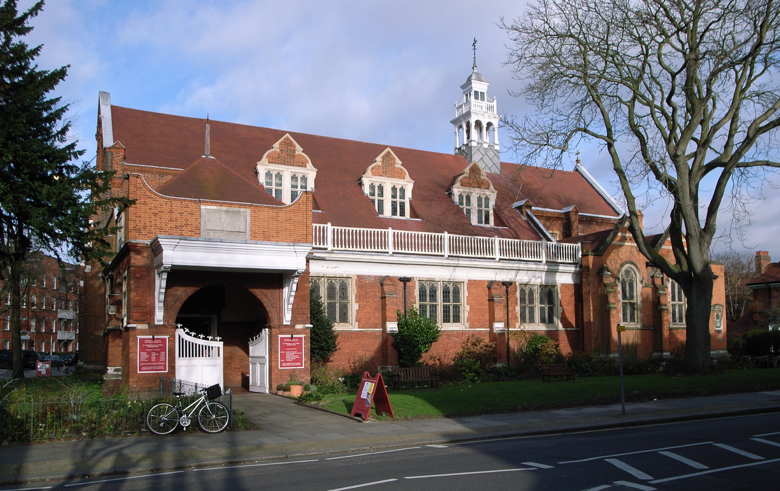 Church of St Michael and All Angels (1879-80), Bedford Park, London, by Richard Norman Shaw.